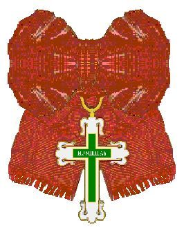 Insignia of A Lady in the Order of Saint-Charles Mexico